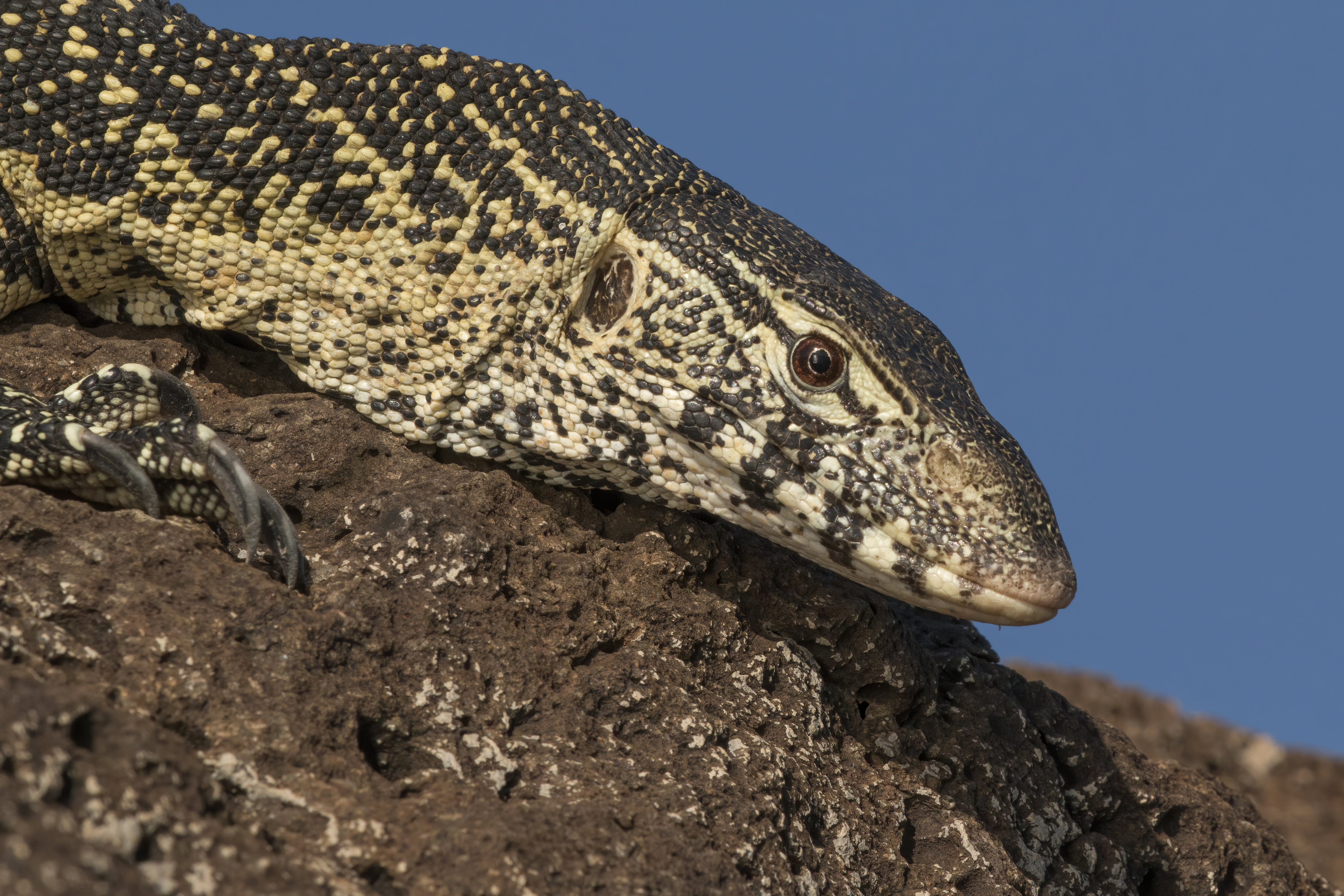 Head of Nile monitor lizard (Varanus niloticus), Lake Baringo, Kenya